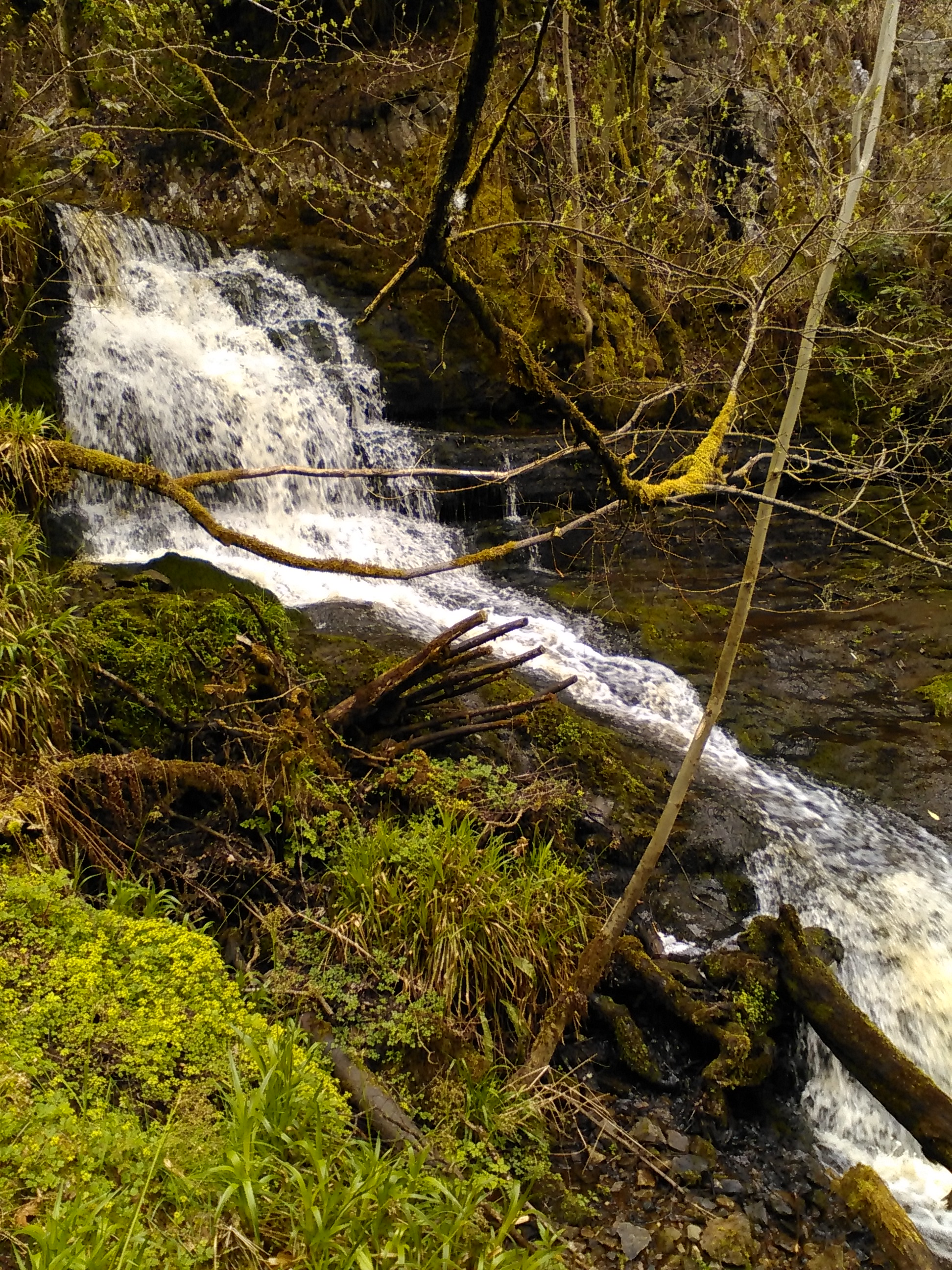 The middle section of the waterfall